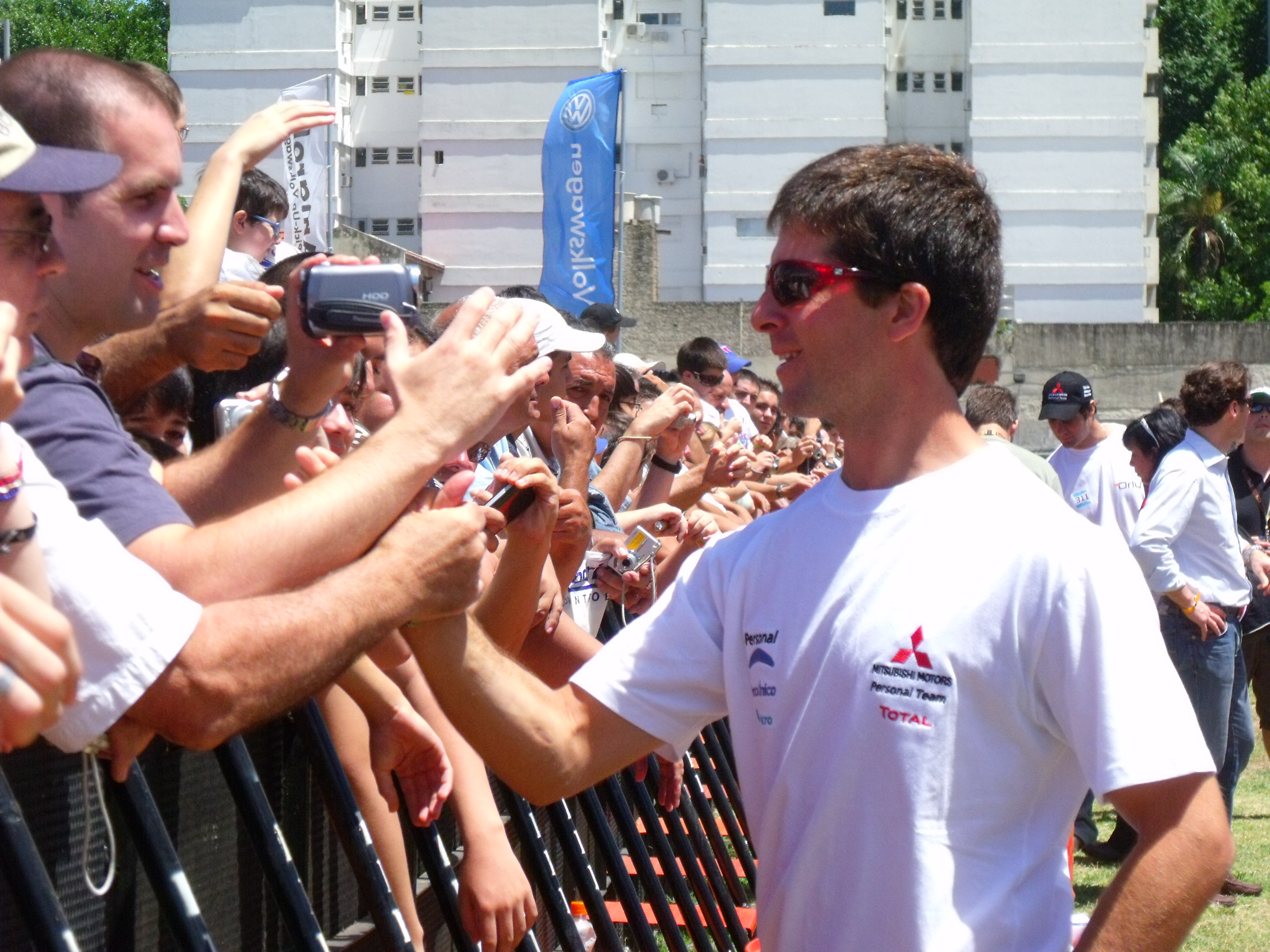 Orly Terranova (AR) at Dakar Park Ferme, Buenos Aires.